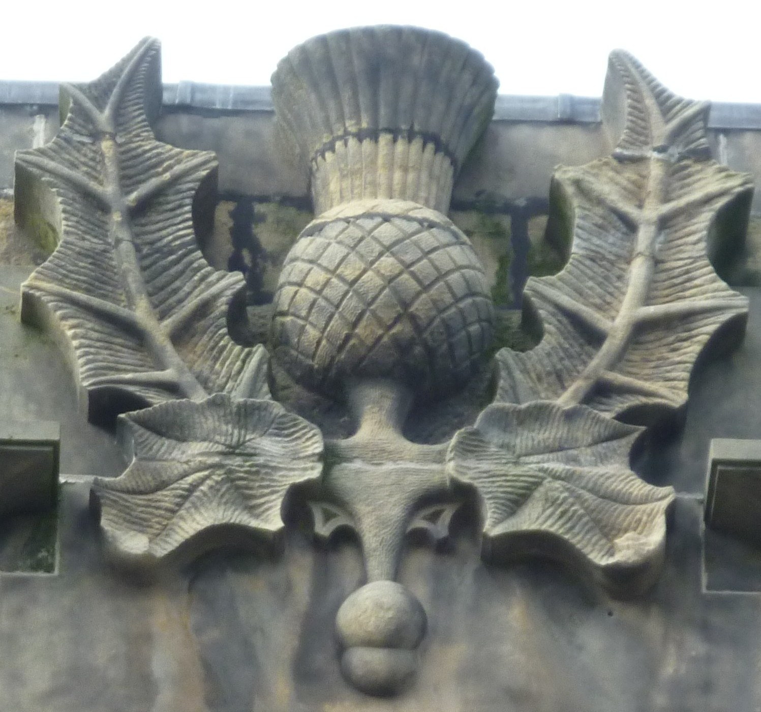 Sculpted thistle, Inverness High Street